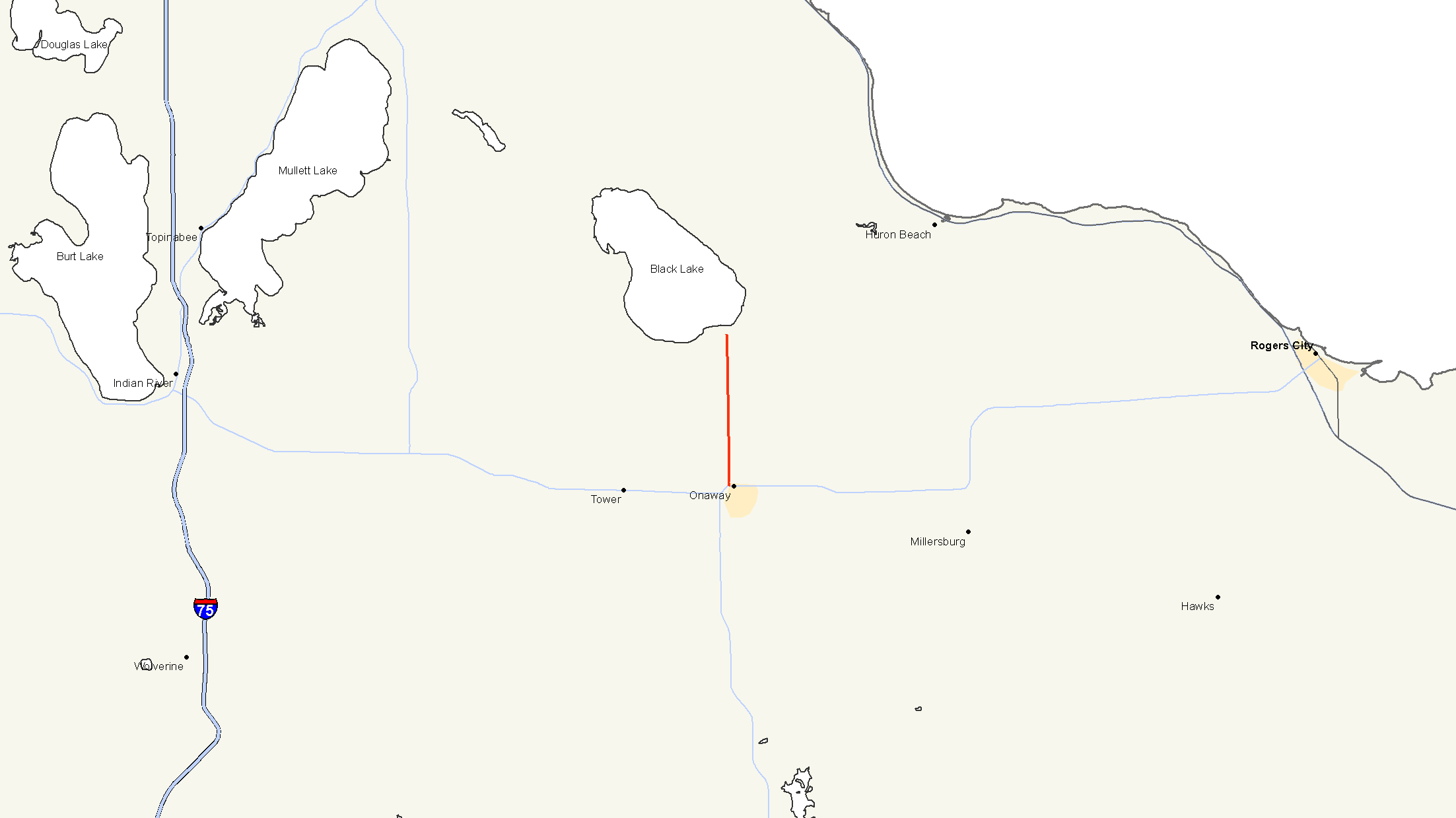 Map of Michigan State Route 211